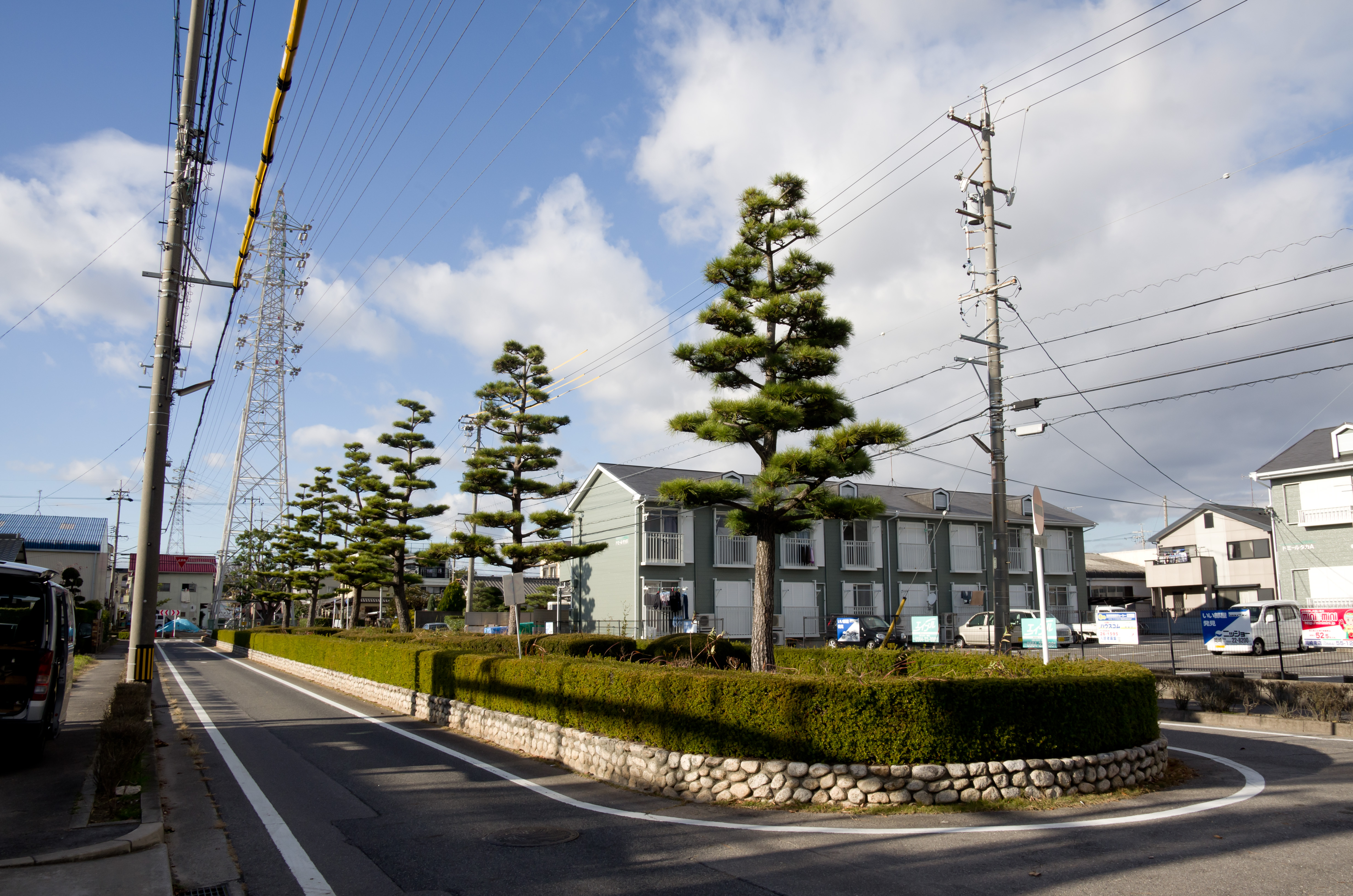 Ending Point of Mutsuna-Higashi Ryokudo in Okazaki, Aichi, Japan